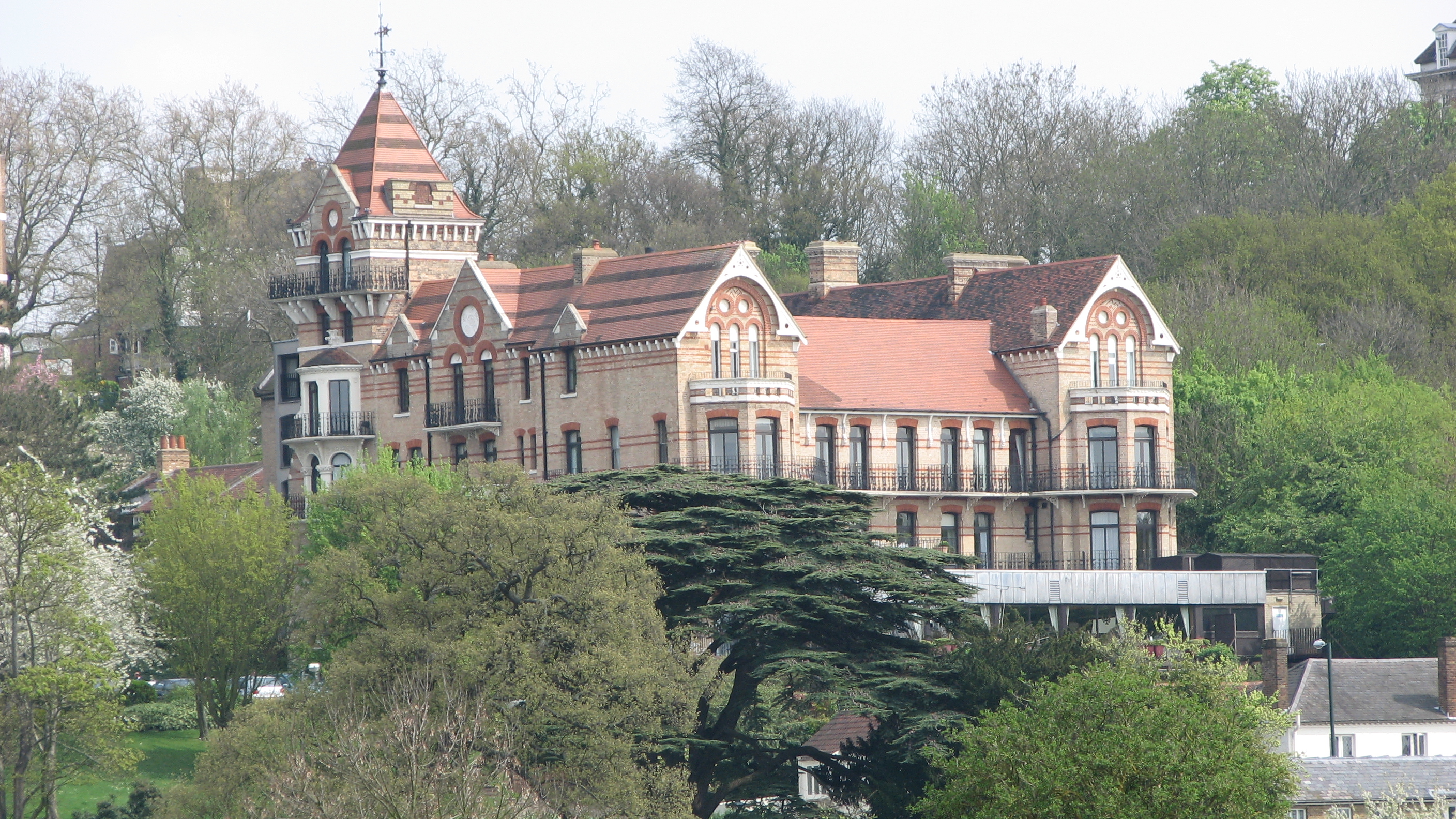 The Petersham Hotel, London - April 2009